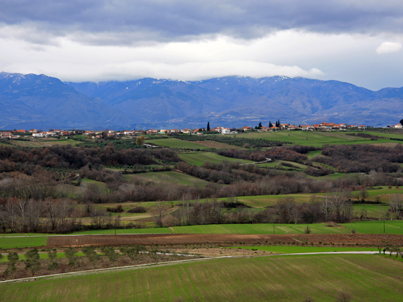 View of Nea Trapezounta village in Pieria, Greece.